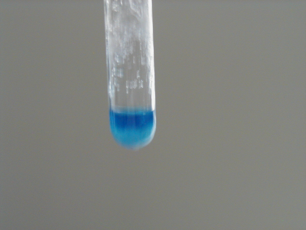 Heating of concentrated sodium chloride and cobalt(II) chloride yields this blue coloration